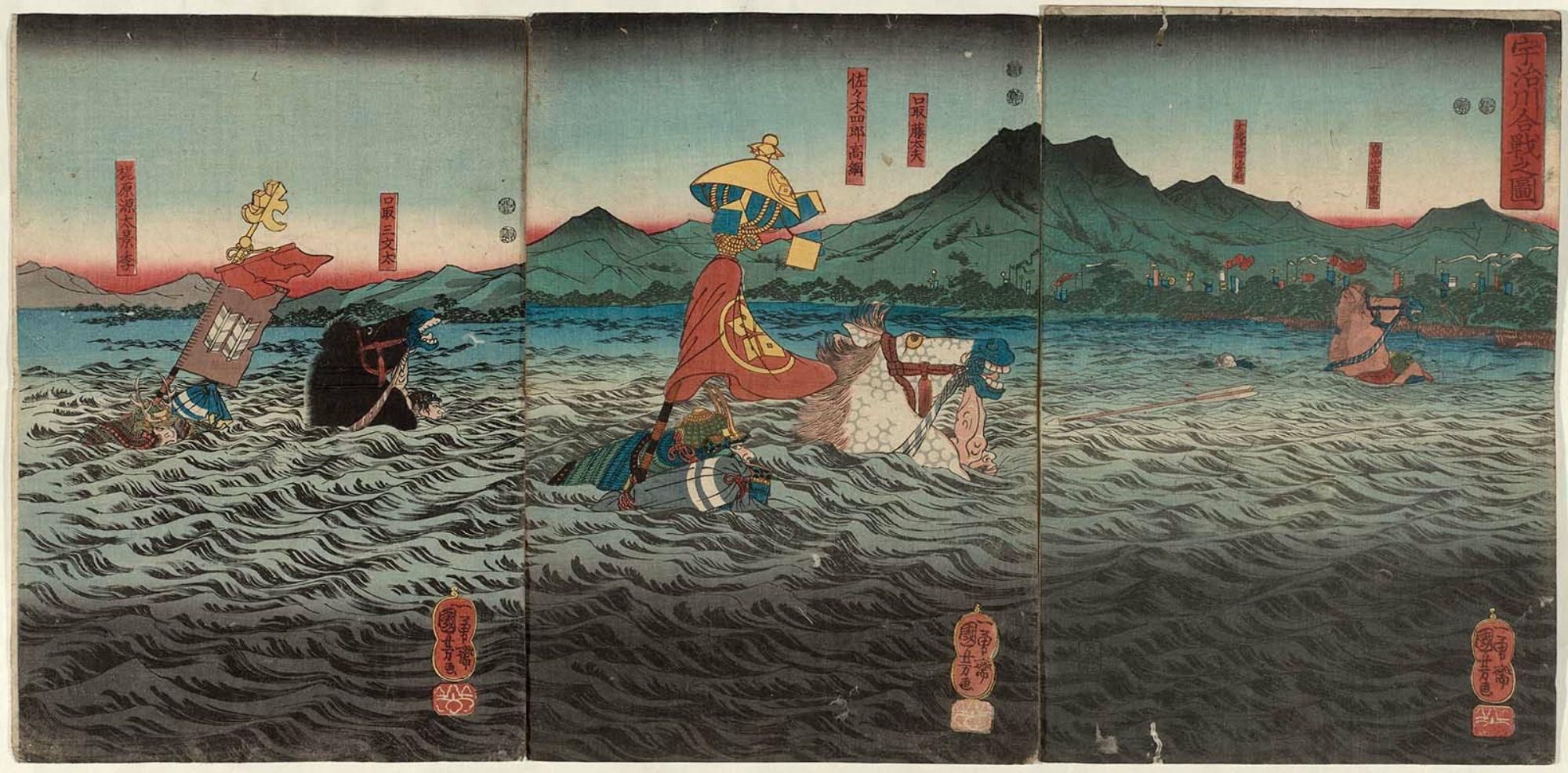 The Battle of the Uji River (Ujikawa kassen no zu)